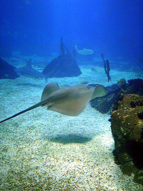 Inside the Lisbon Oceanarium - cartilaginous fish Batoidea